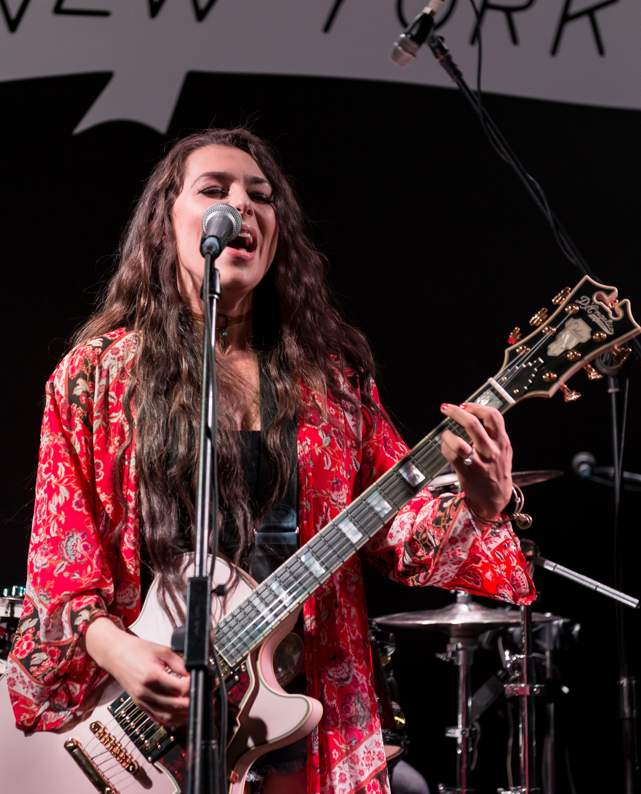 Jessica Lynn performing in the D'Angelico Guitars showroom at the Winter NAMM Show in Anaheim, Orange County, California, on Saturday, January 27, 2018.